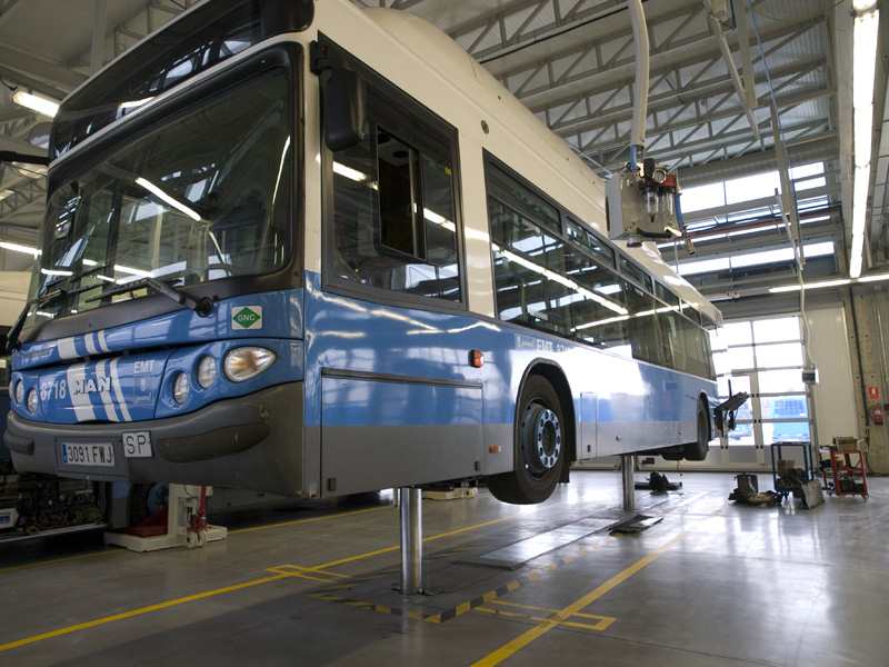 EMT Madrid Bus Depot of Sanchinarro